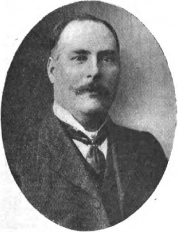 Albert Stanley, Lib-Lab MP for North West Staffordshire, and Secretary of the Midland Counties Miners' Federation. Taken in or before 1908.